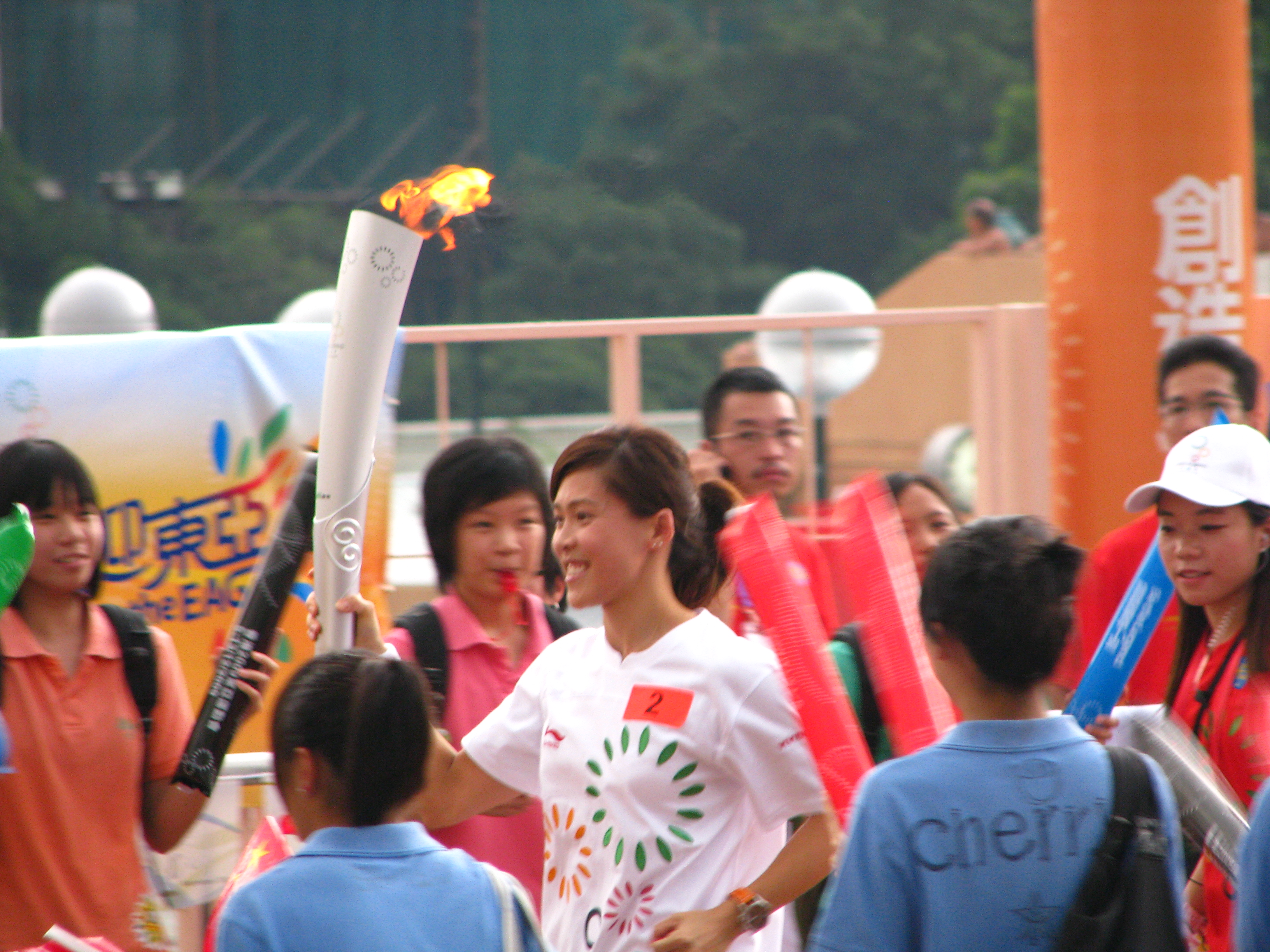 Hong Kong 2009 East Asian Games Torch Relay in Hong Kong.